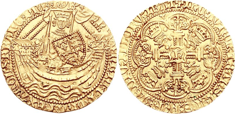 House of Lancaster. Henry V. 1413-1422. AV Noble (7.01 g, 5h). Class E. h EnRIC DI GRA REX AnGL’ Z FRAnC’ DnS hyB’, king standing facing, holding sword and shield, in ship with bowsprit; ornaments 11-1, ropes 2/1, quatrefoils 3/3, lis 3, saltire stops, quatrefoil above sail, cinquefoil and annulet flanking wrist, trefoil by shield, unbroken annulet on hull of ship, pellet at sword point IhC AVTEm TRAnSIEnS PER mEDIV’ ILLORV’ IBAT, ornate cross with lis at ends and h in center; crowned lions in quarters, pellet and quatrefoil flanking upper arm of cross, saltire stops. Schneider 255/251 (obv./rev.); North 1373; SCBC 1744. Near EF. Bold strike with minimal flat spots.